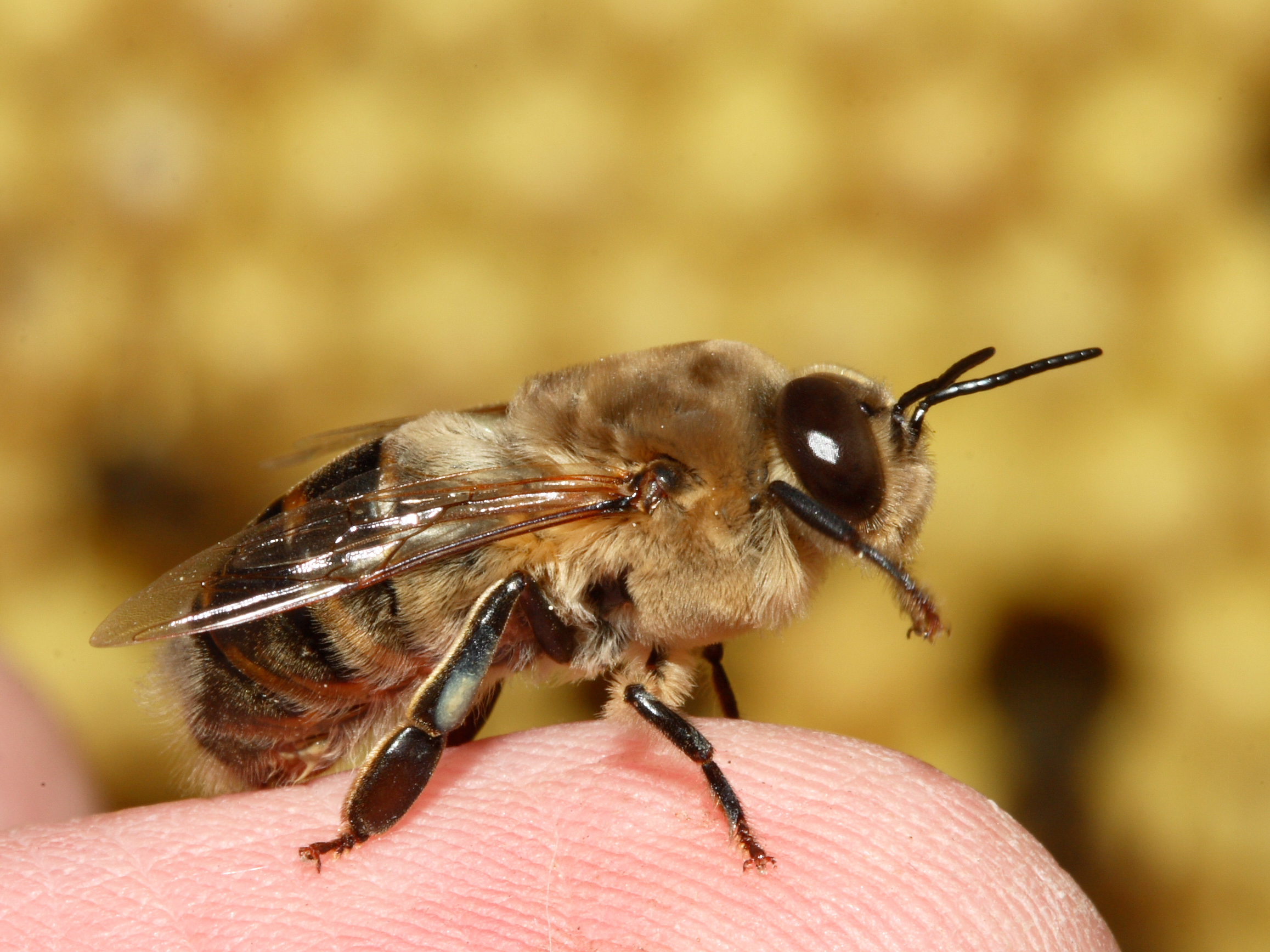 Drone (male honeybee)